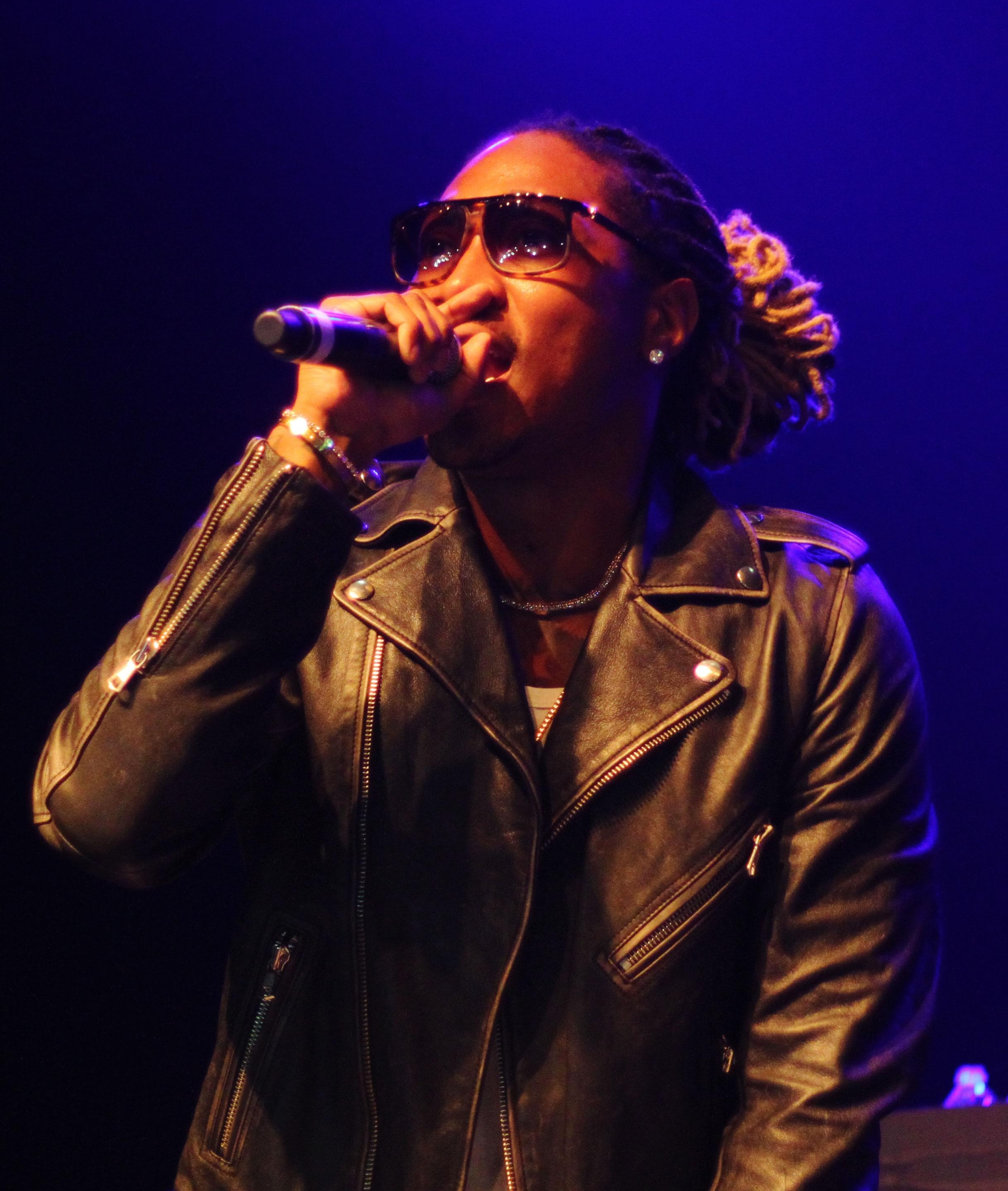 Future on the Honest Tour at Sound Academy in Toronto on July 11, 2014.